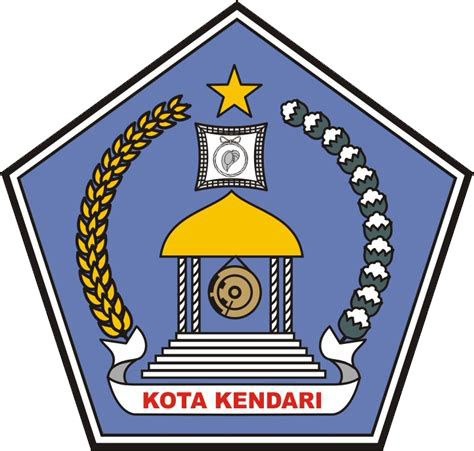 Coat of Arms (Lambang) of City (Kota) Kendari, Provinsi Sulawesi Tenggara (South East Sulawesi Province), Indonesia